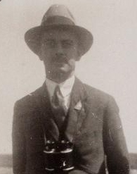 A Landsborough Thompson and his wife